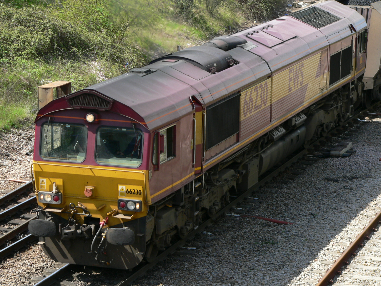 EWS Class 66 locomotive 66230 heads east from the goods loop past Bristol Parkway railway station with a coal train, presumably for Didcot Power Station.